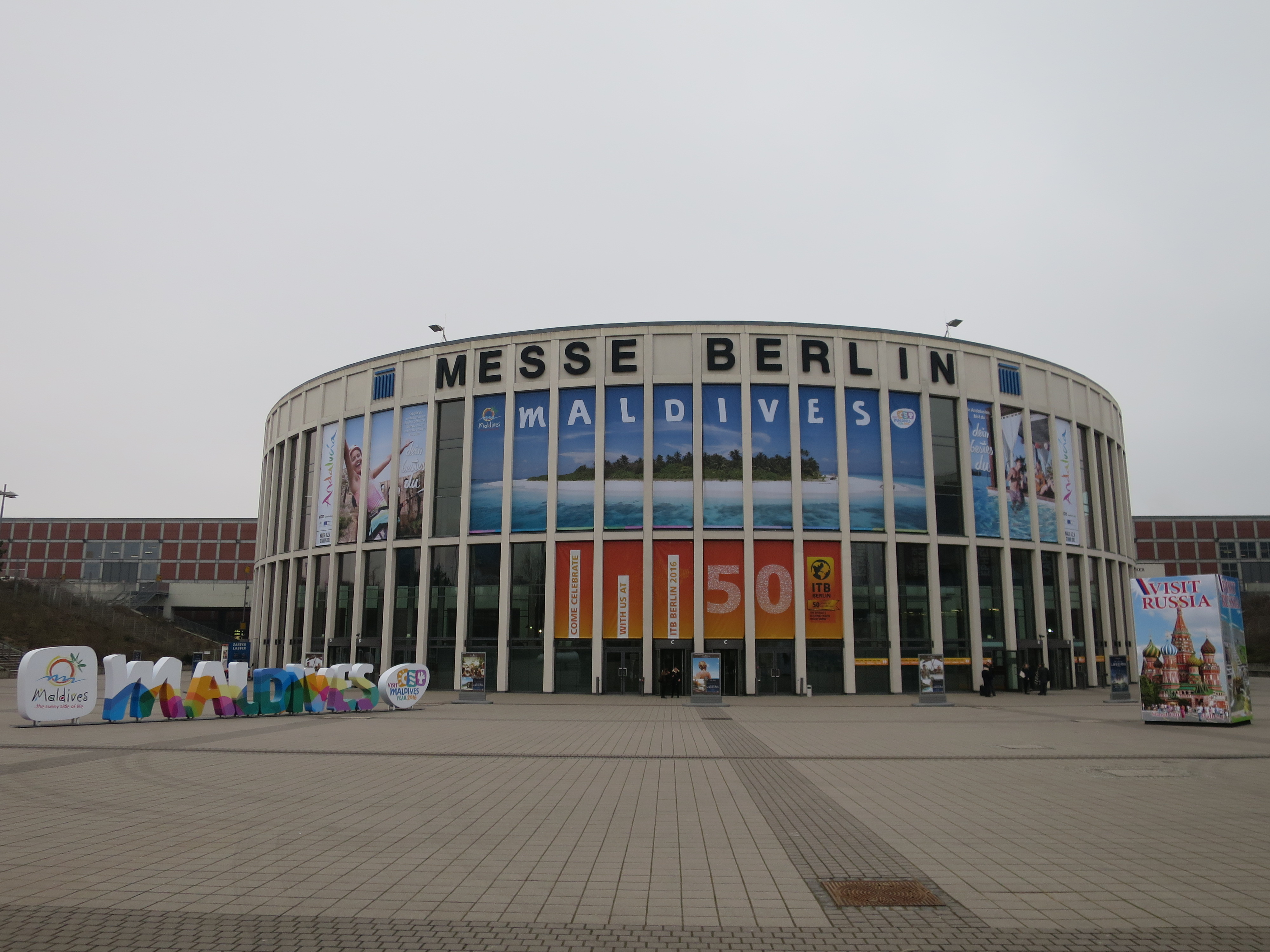 ITB Berlin 2016 The making of this document was supported by Wikimedia Polska Association, within Wikigrant no. WG 2016-9. English | polski | +/−